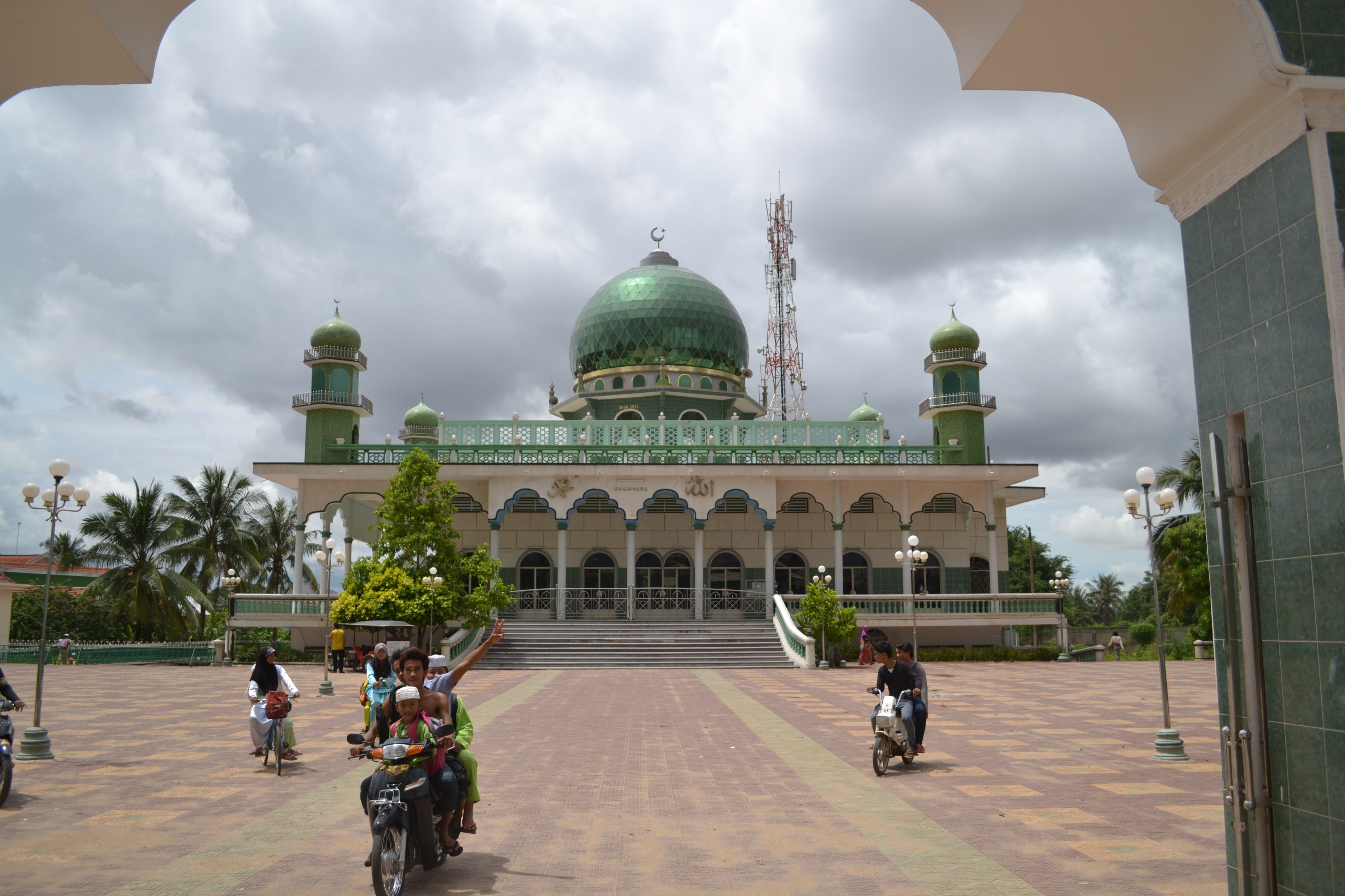 Front view of KM9 mosque in Phnom Penh